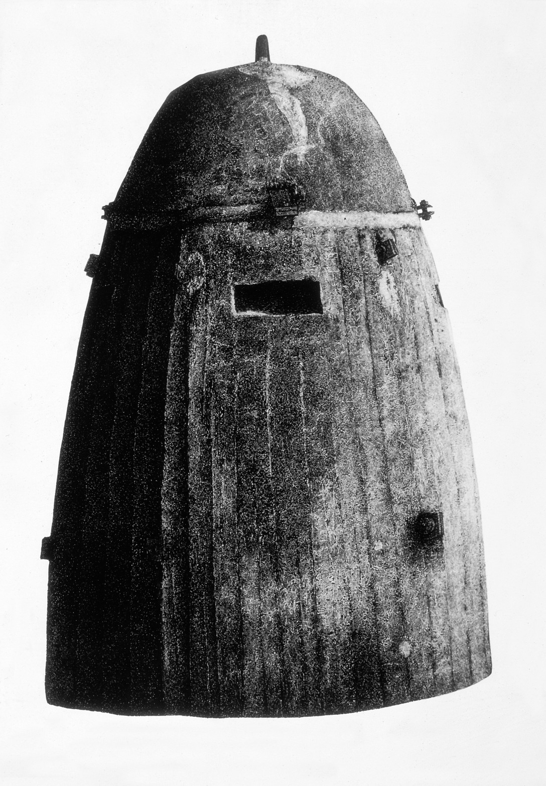 Paweł Warchoł - Ironclad 97 from the series “Ironclads”.